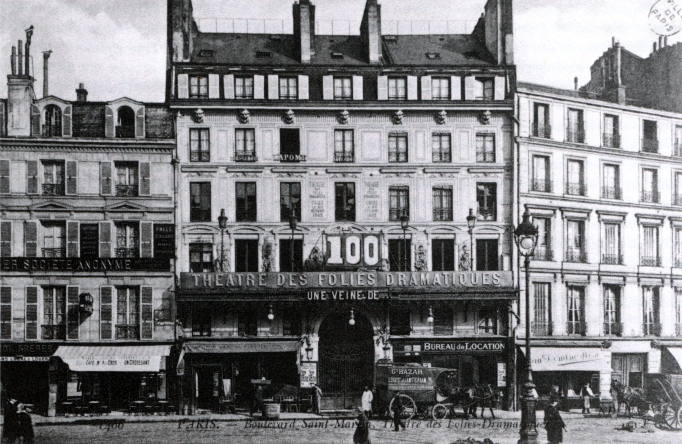 The Théâtre des Folies-Dramatiques in 1905, as seen from the boulevard Saint-Martin (the address was 40 rue de Bondy)